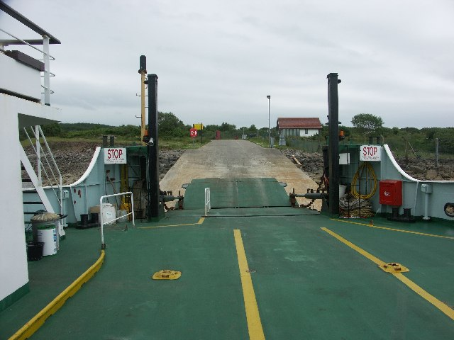 Portavadie to Tarbert ferry. Sorry did not get chance for a picture from the shore because the ferry was just about to leave!